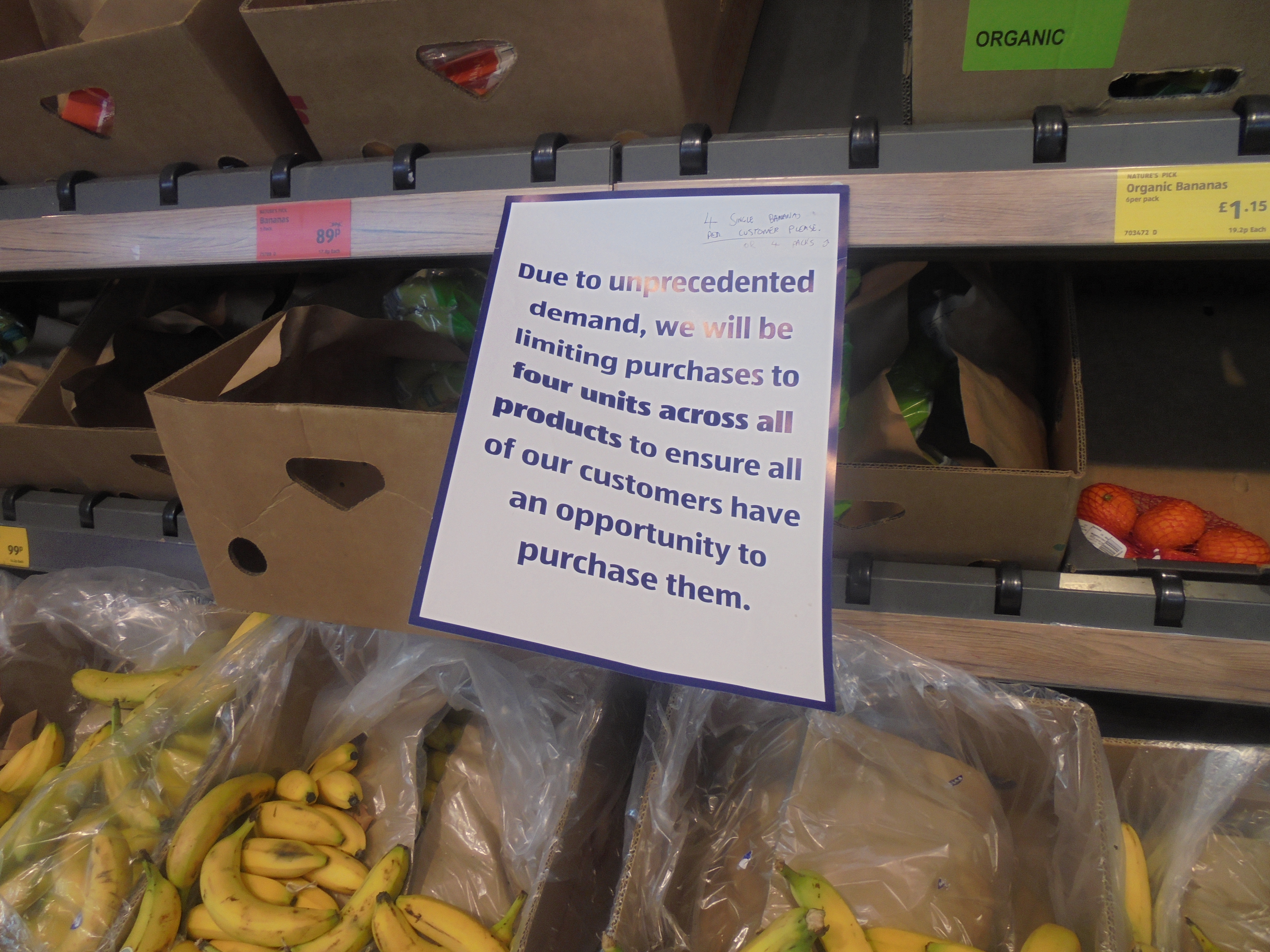 Sign notifying customers of rationed purchases, Aldi, Wetherby, West Yorkshire. Taken on the afternoon of Monday the 23rd of March 2020.